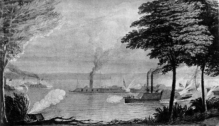 "Battle of Fort Pillow, First position". The action between the Confederate River Defense Fleet and Federal ironclads near Fort Pillow, Tennessee, 10 May 1862. Confederate ships, seen at right, include (from left to right): General Earl Van Dorn, General Sterling Price, General Bragg, General Sumter and Little Rebel. The Federal ironclads, in the center and left, are (from left to right): Mound City, Carondelet and Cincinnati. A Federal mortar boat is by the river bank in the lower right.